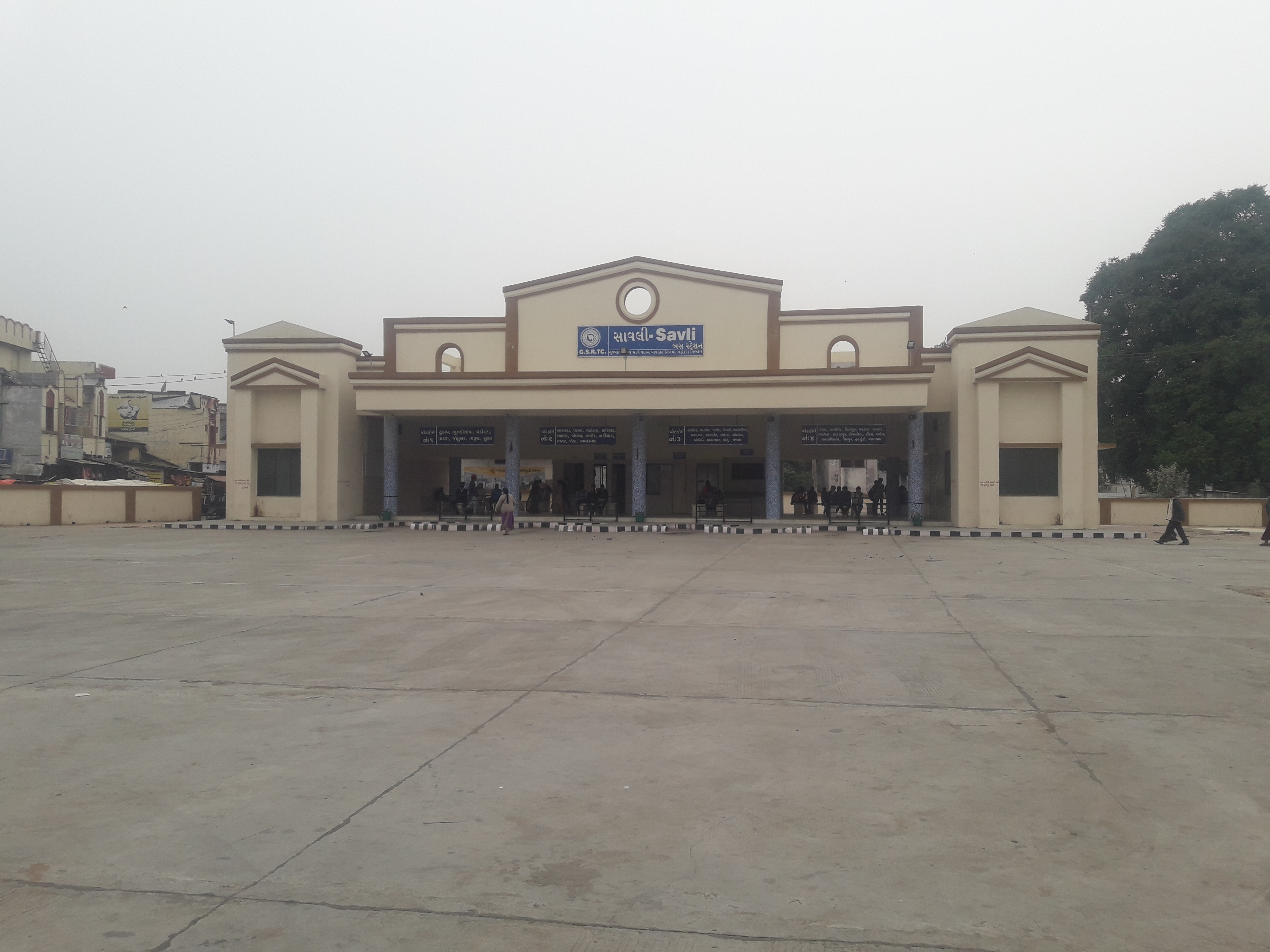 GSRTC bus depo in Savli, Gujarat, India